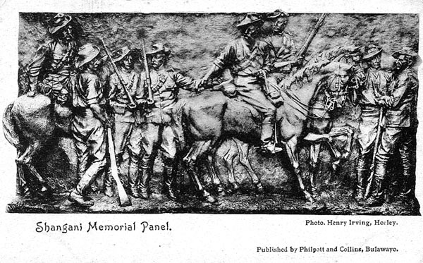 Photograph of original black and white postcard depicting one of the panels of the Shangani Memorial, Matobo Hills, Zimbabwe. Original photograph by Henry Irving, Horley, originally published by Philpott & Collins, Bulawayo, Rhodesia.